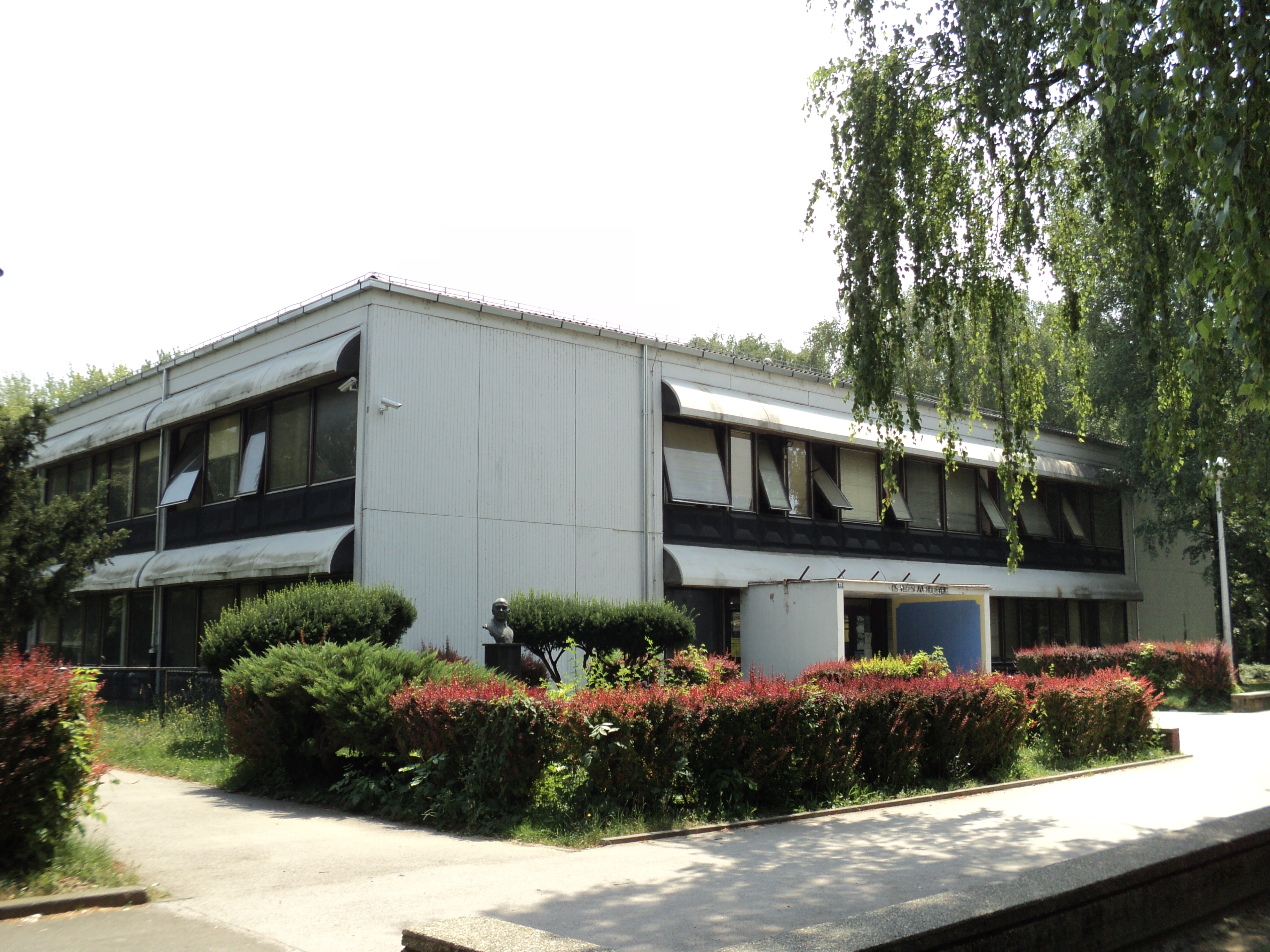 Elementary school of Većeslav Holjevac in Siget, Zagreb.